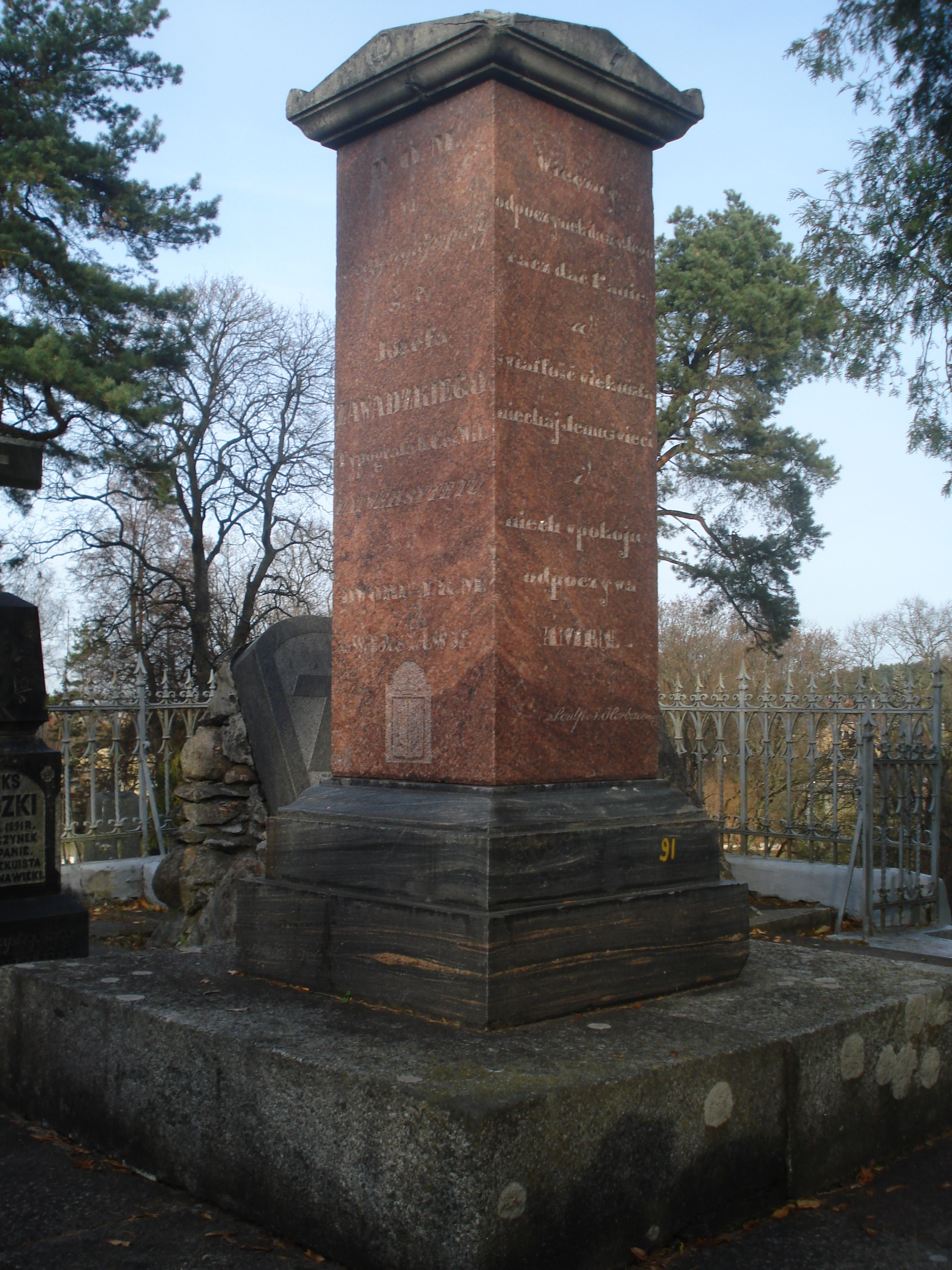 Grave of editor Józef Zawadzki (1781-1838) in the Sunny cemetery in Vilnius